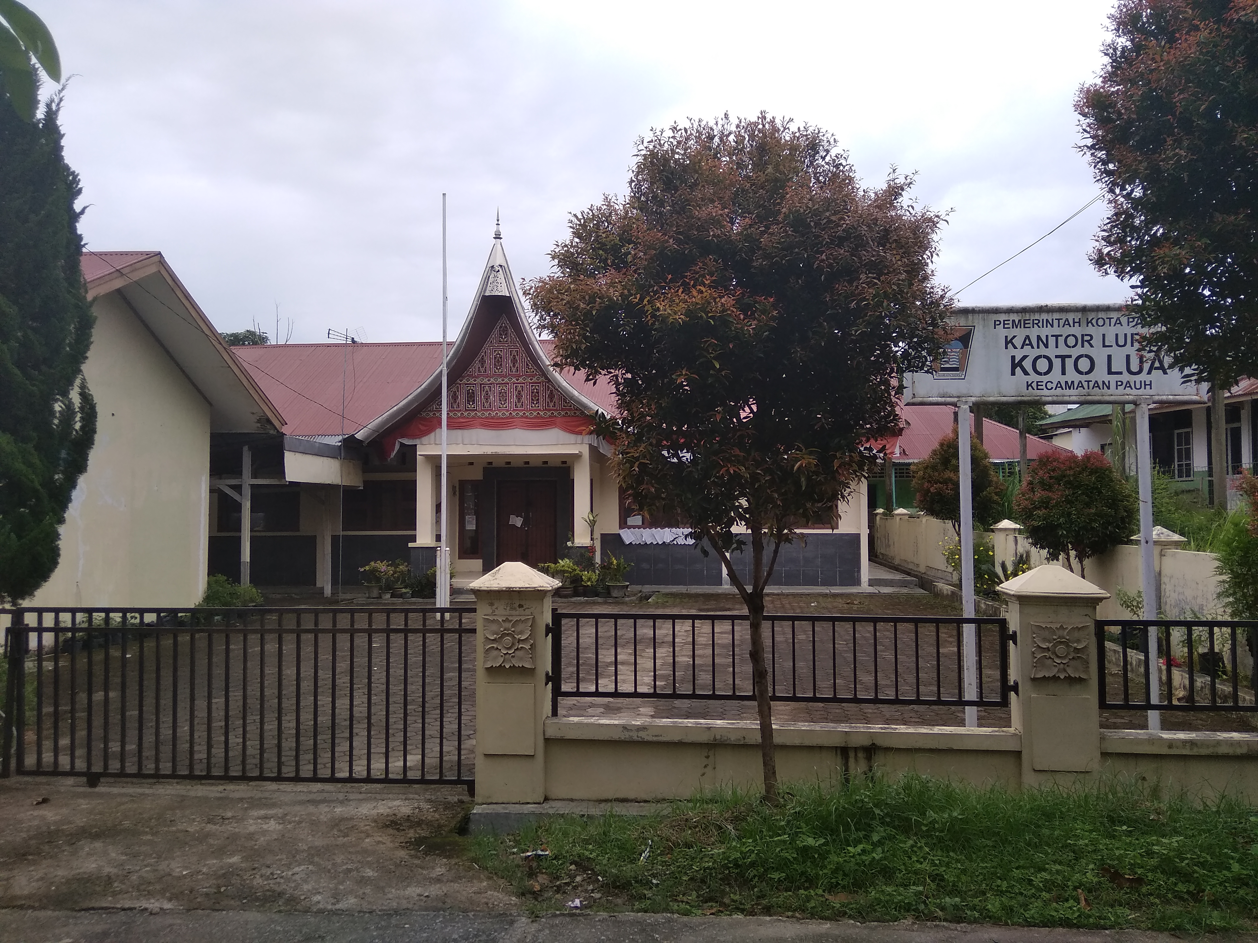 Koto Luar suburban office, Pauh subdistrict, Padang city in the Cimpago Permai Housing Complex.